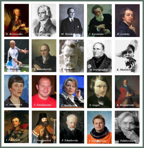 Ukrainian diaspora: Ukrainians in Russia. (Ukr. Українці в Росії.) Ukrainians on photo: Olexandr Bezborodko, Dmitry Bortniansky, Mikhail Tereshchenko, Vladimir Korolenko, Dmitry, Levitzky - Nikolay Davydenko, Vladimir Borovikovsky, Vladimir Vernadsky, Mikhail Ostrogradsky, Klavdiya Shulzhenko - Anna Akhmatova, Fedor Emelianenko, Valentina Matviyenko, Mykola Gogol, Kyrylo Razumovsky - Ivan Paskevich, Feofan Prokopovich, Pyotr (Tchaika) Tchaikovsky, Yuri Onufriyenko, Anna (Mazepa) Politkovskaya.